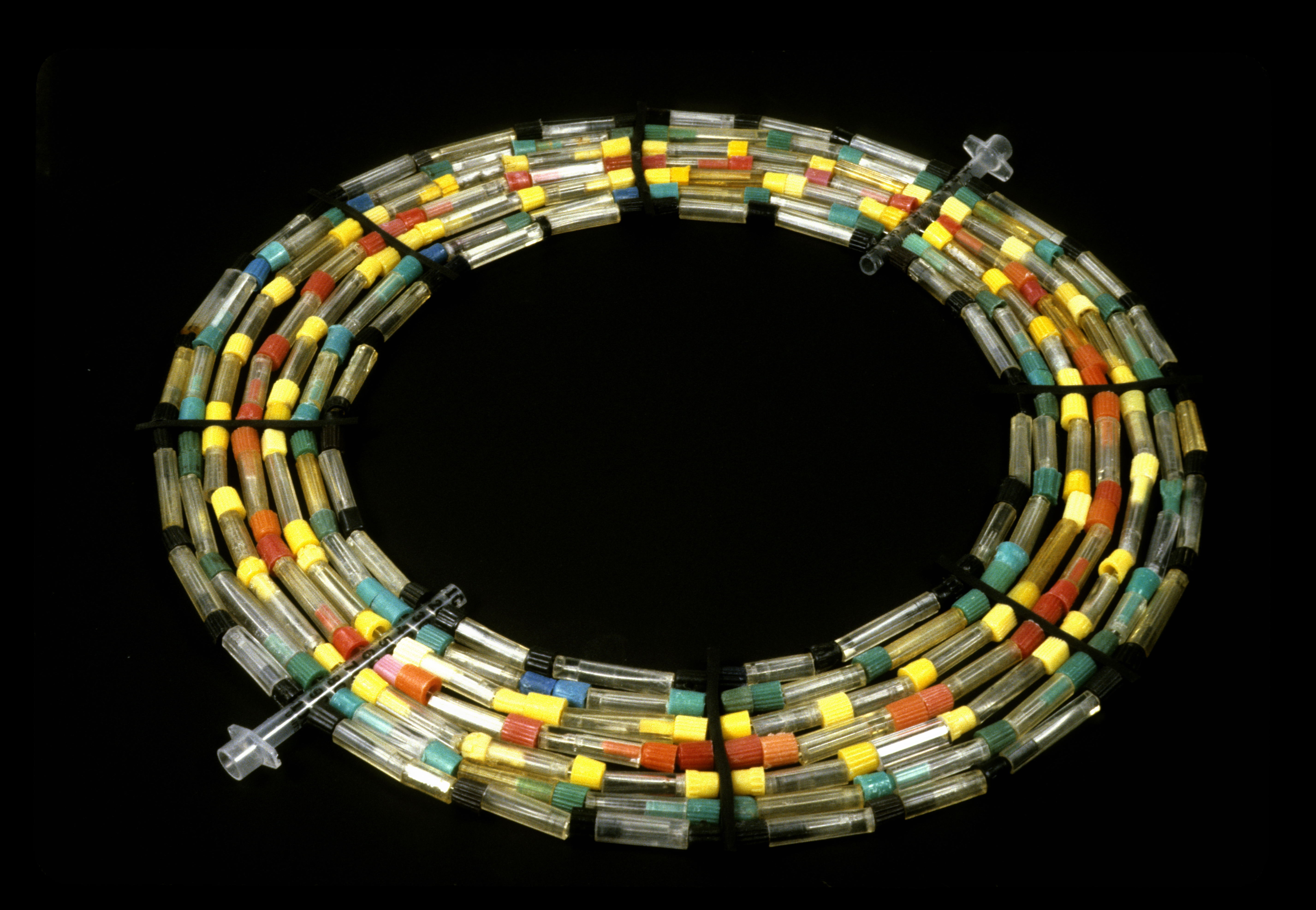 American Collar II, by Jan Yager, is part of the City Flora/City Flotsam series. Diameter: 13in / 39cm. Materials: (139) found clear plastic crack cocaine vials. (222) found plastic crack cocaine vial caps, (2) syringes, (1) crack cocaine vial cap, cast into sterling silver, rubber, stainless steel wire. Techniques: gathered, sanitized, sorted, drilled, strung. Collection: Museum ofFine Arts: Boston. Artist's Statement: This collar is made with found plastic crack cocaine vials, and the insulin syringes of a fellow artist living with diabetes. It references 21st century African Maasai beaded collars made with European tubular glass beads similar to those favored by 16th century slave traders. It speaks of dependency upon “legal” and “illegal” drugs, new forms of bondage - sometimes chemical, and, the economic forces that built the New World, and continue to impact the neighborhood around my studio.